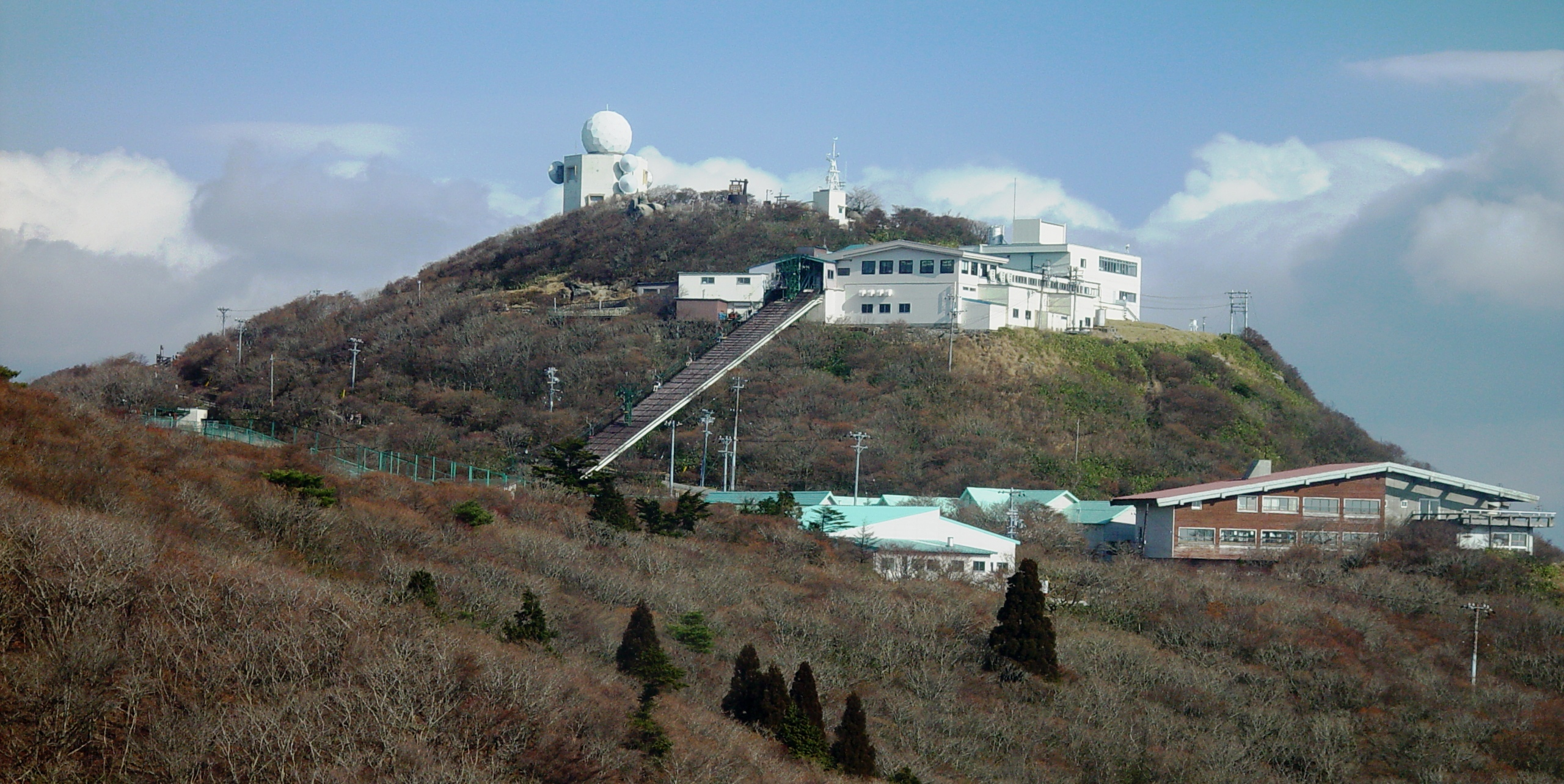 Gozaisho Ropeway and Japan Capricornis crispus zoo